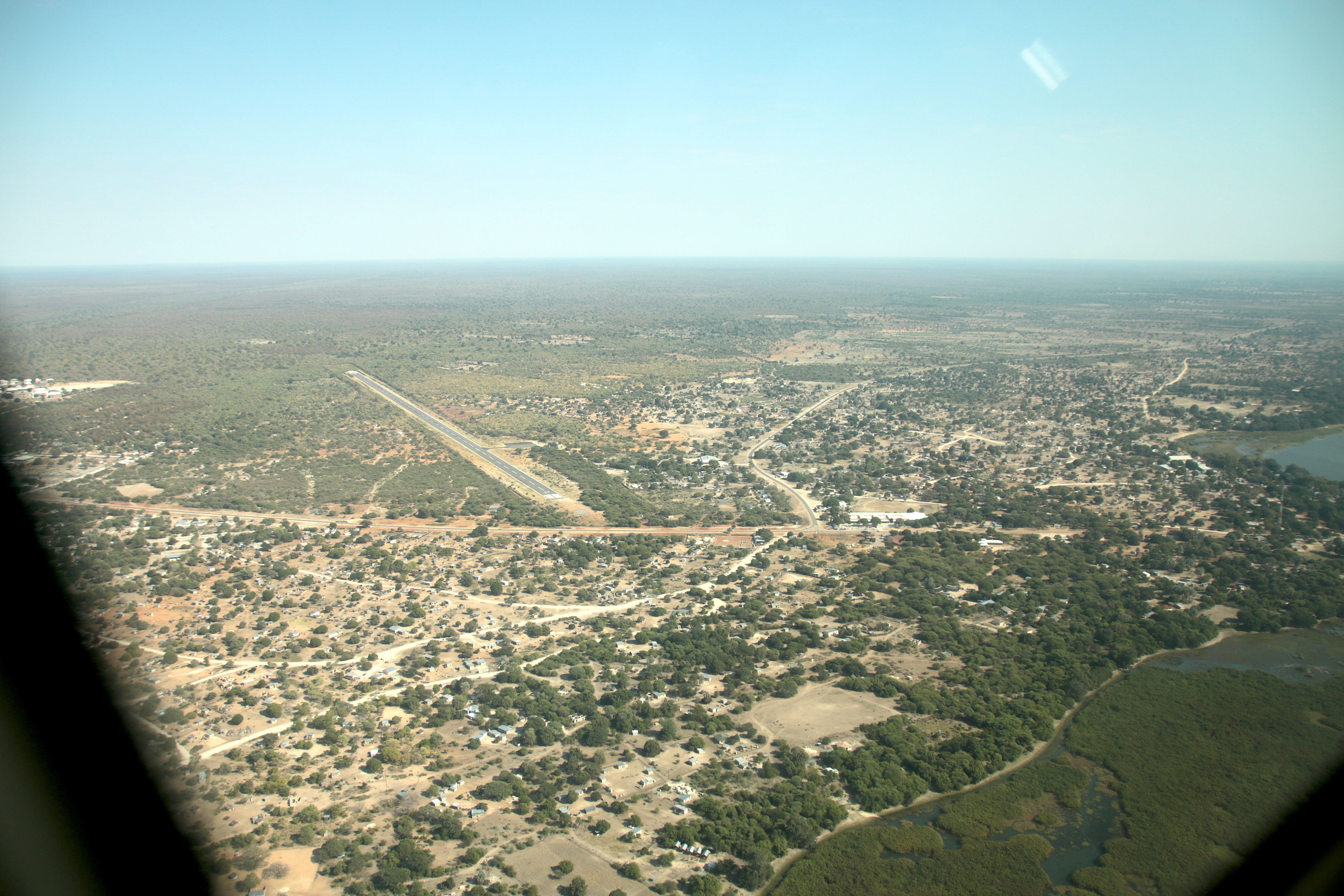 Shakawe (2019)